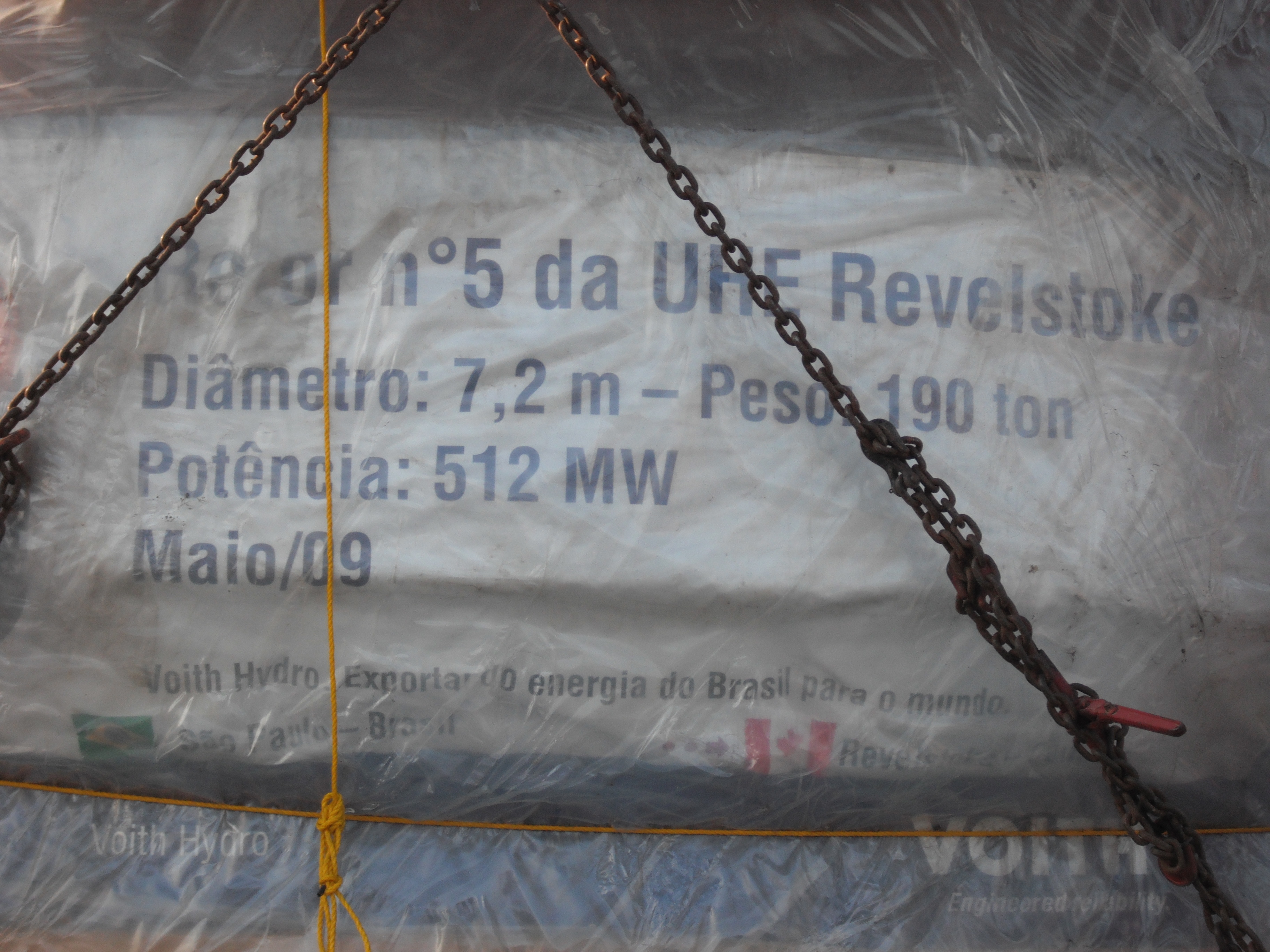 Shipping label of runner for new generating unit at BC Hydro's Revelstoke Dam; photo as taken just above Grand Coulee Dam in Washington, while runner awaits transfer to river barge.